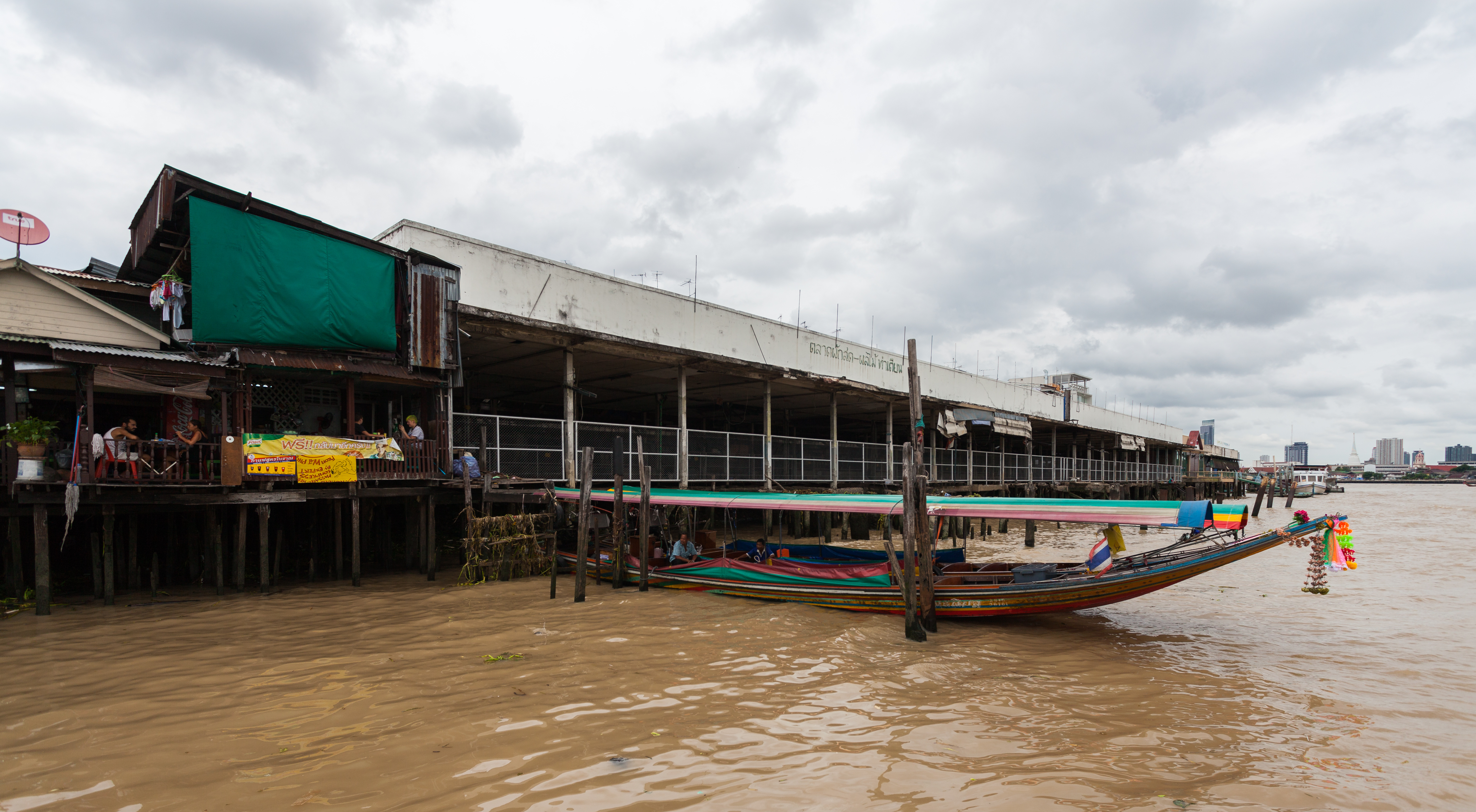 Chao Phraya river, Bangkok, Thailand